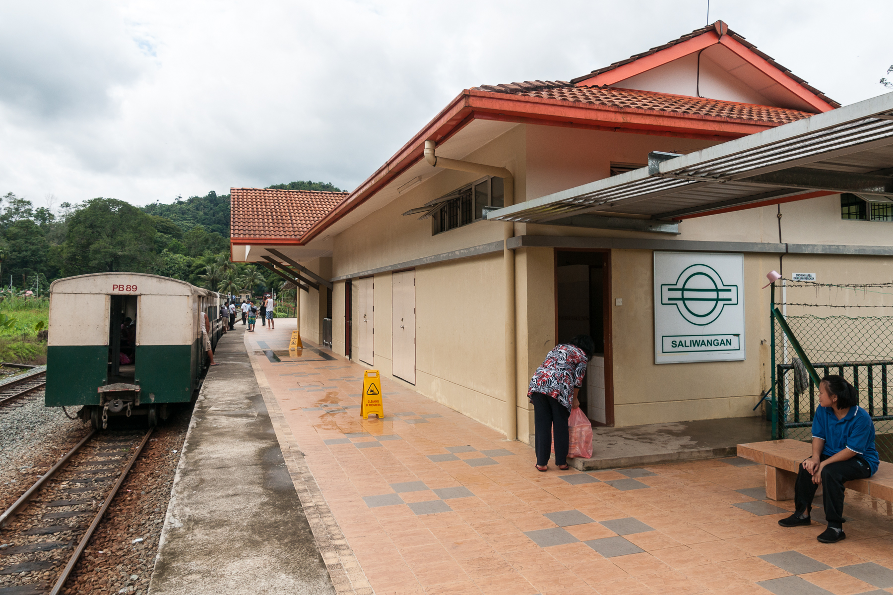 Saliwangan Railway Station of the Sabah State Railway in the Padas River valley.